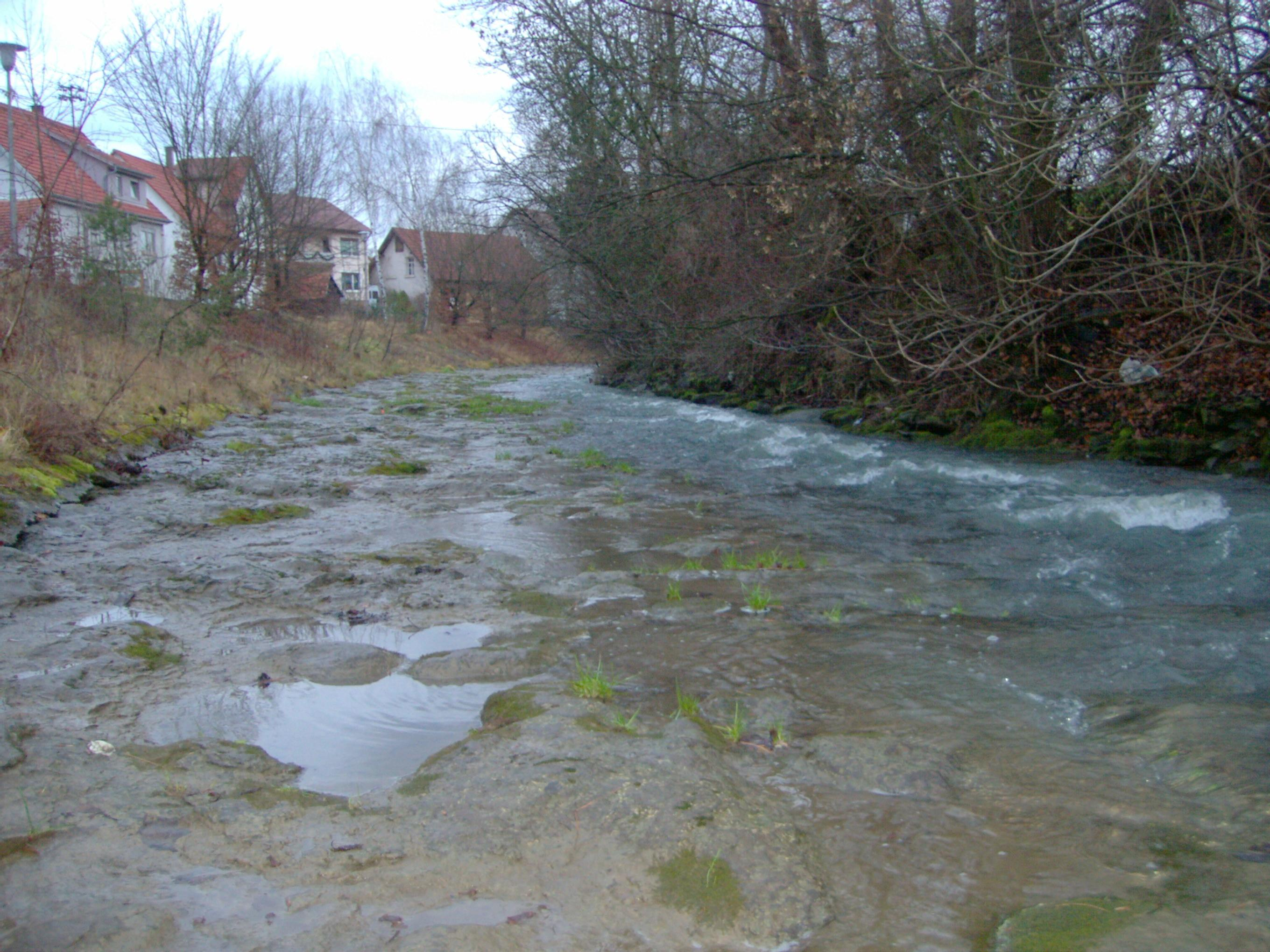 Ammonites in the Steinlach in Ofterdingen near Tübingen (Germany)